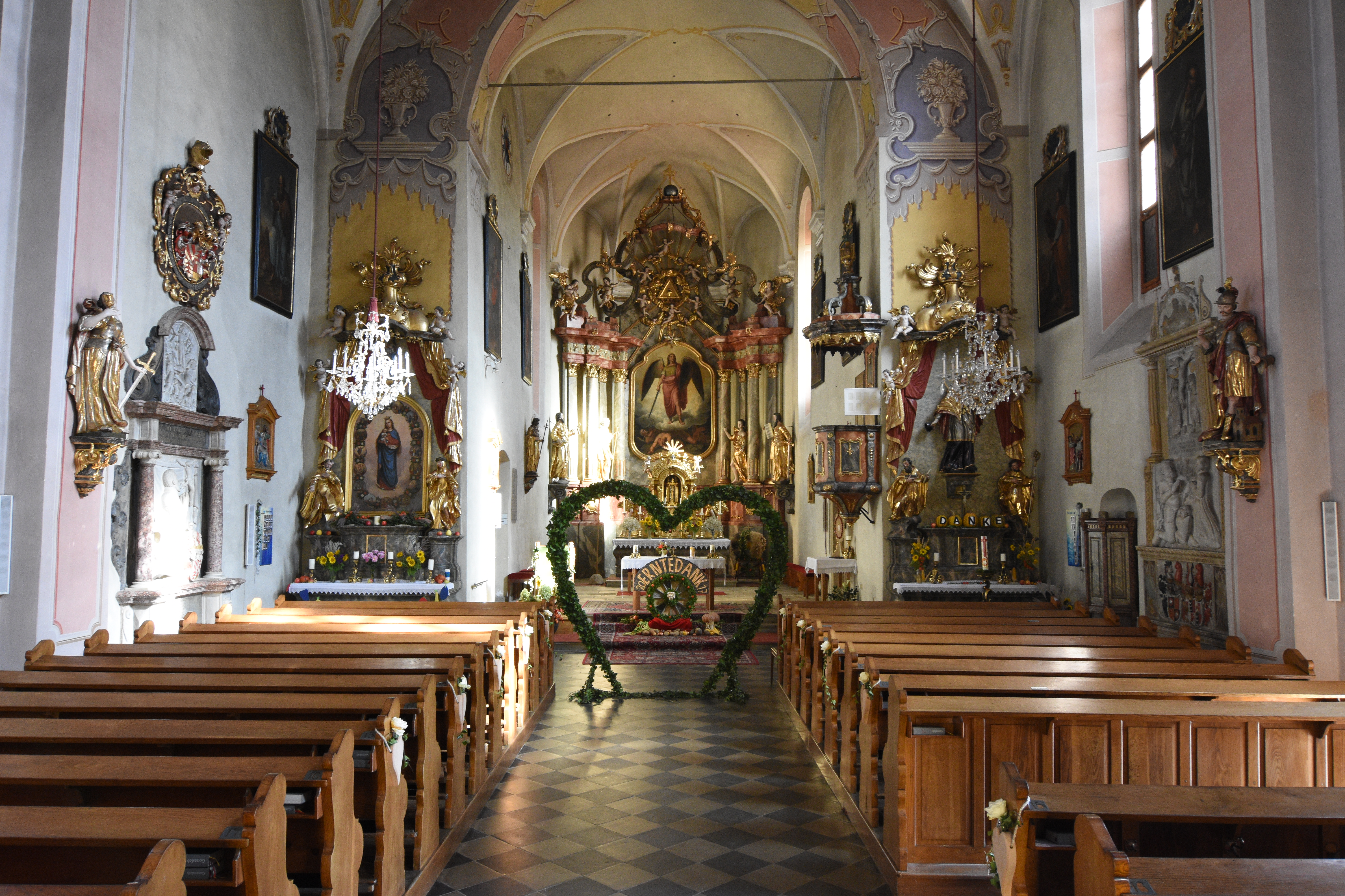 Pfarrkirche Trautmannsdorf interieur